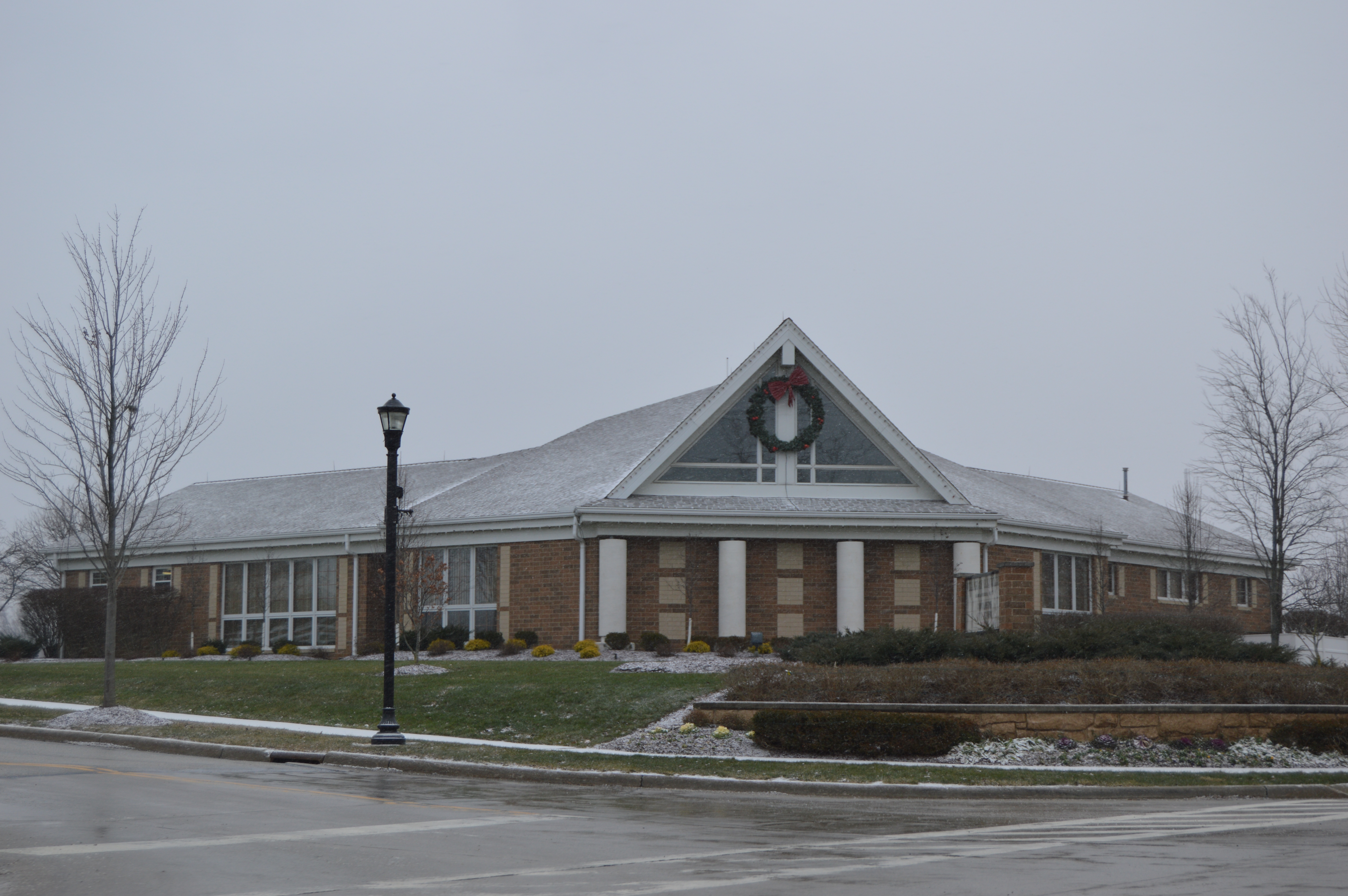 Front and western side of the Glenwillow village hall, located on the northeastern corner of the intersection of Pettibone and Austin Powder Roads in Glenwillow, Ohio, United States.